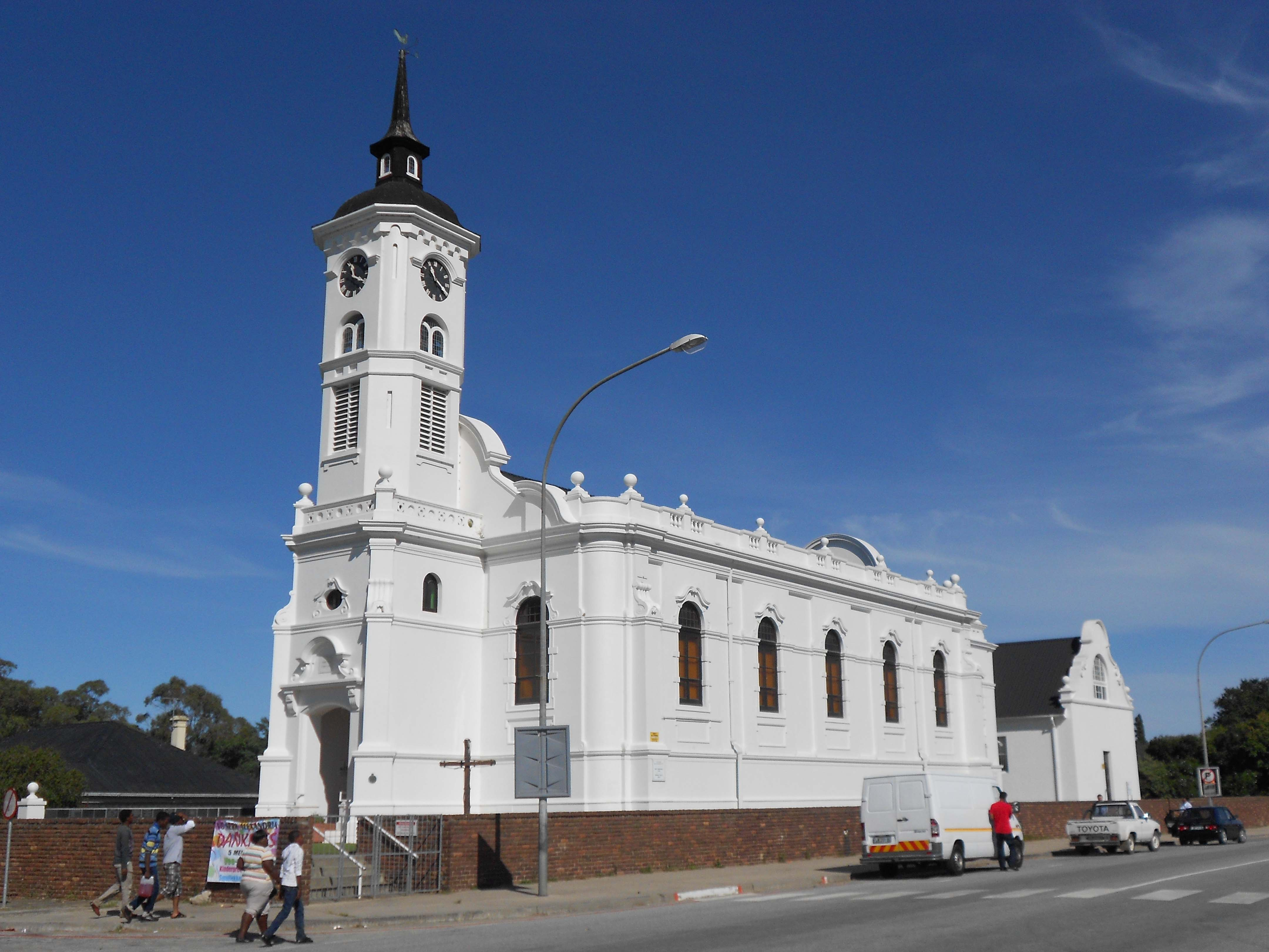 The town was established in the 18th century and was named after the Reverend Alexander Smith. The Dutch Reformed Church Alexandria was built in 1896.